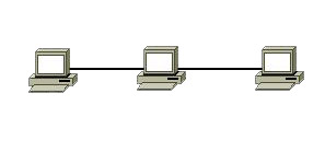 Linear network topology.